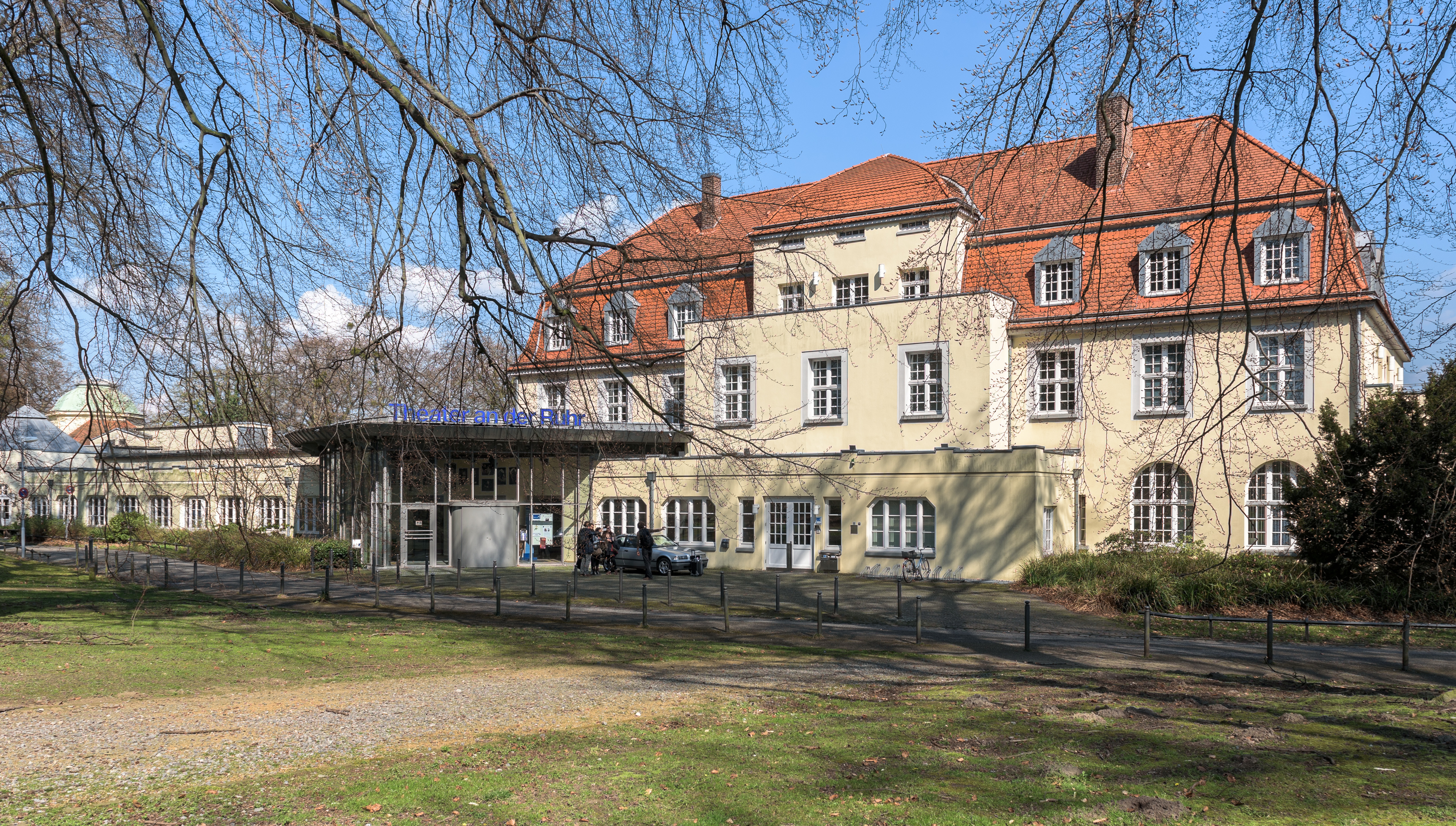 Theater an der Ruhr